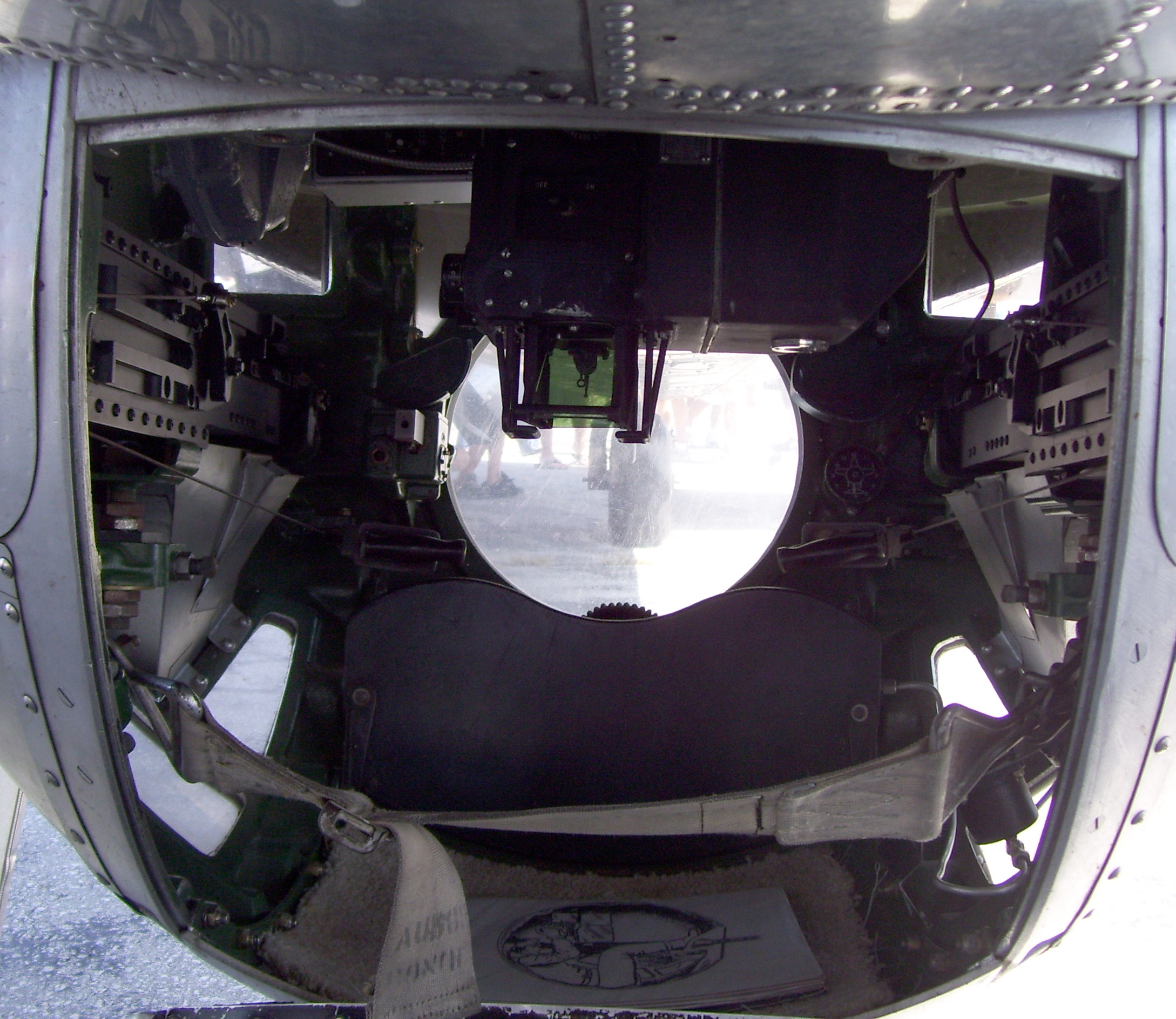 The inside of the ball turret underneath a B-17 Flying Fortress (Yankee Lady).